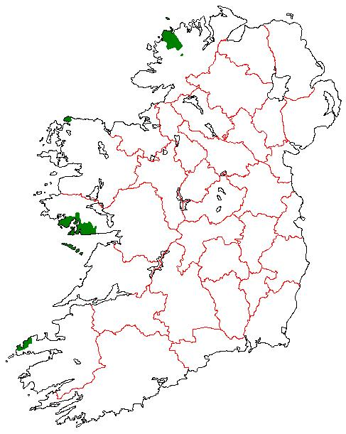 Gaeltacht areas as of 2007.